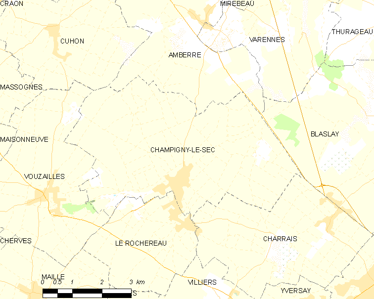 Map of French municipality Champigny-le-Sec